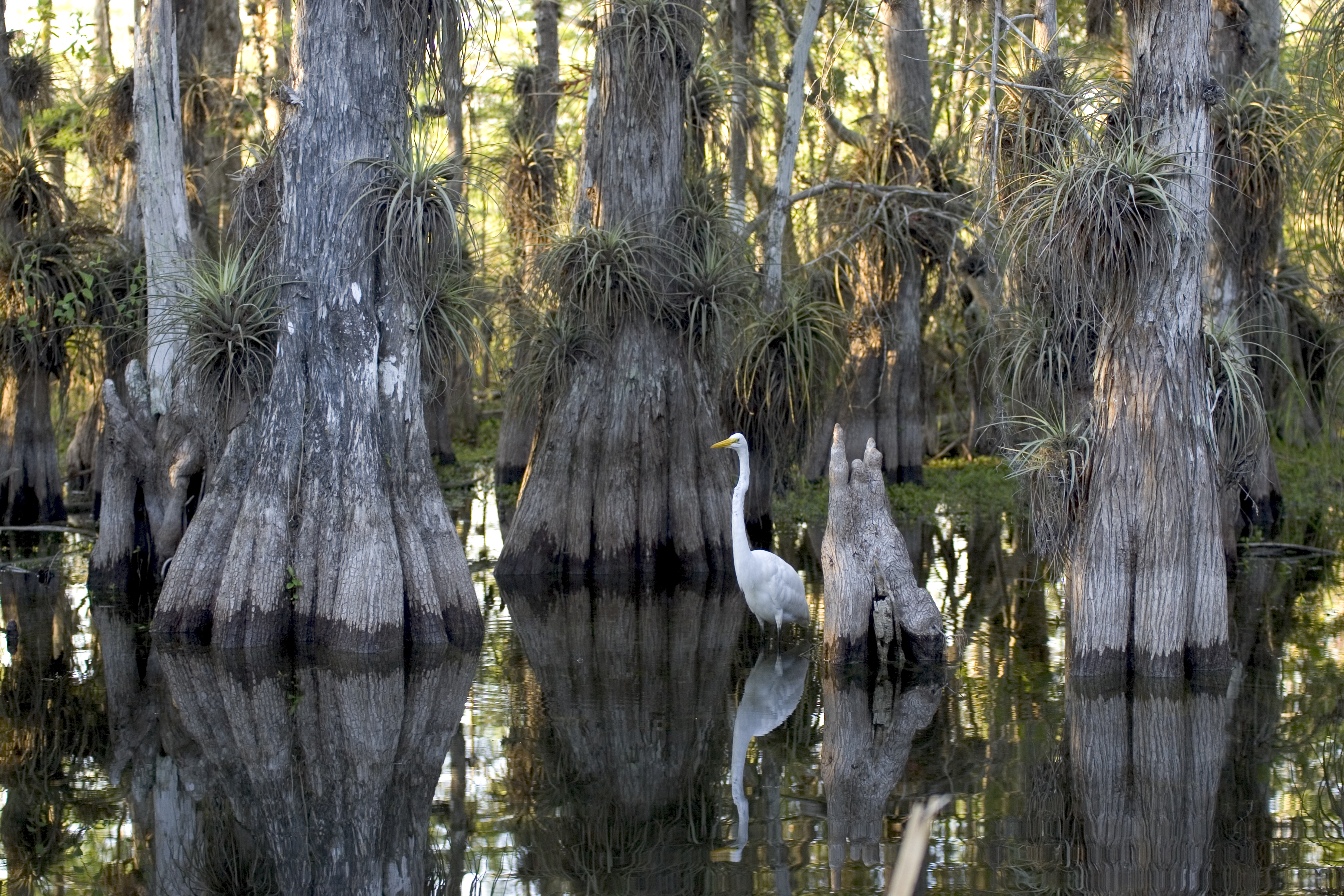 Great Egret (2), NPSPhoto, R. Cammauf (1)